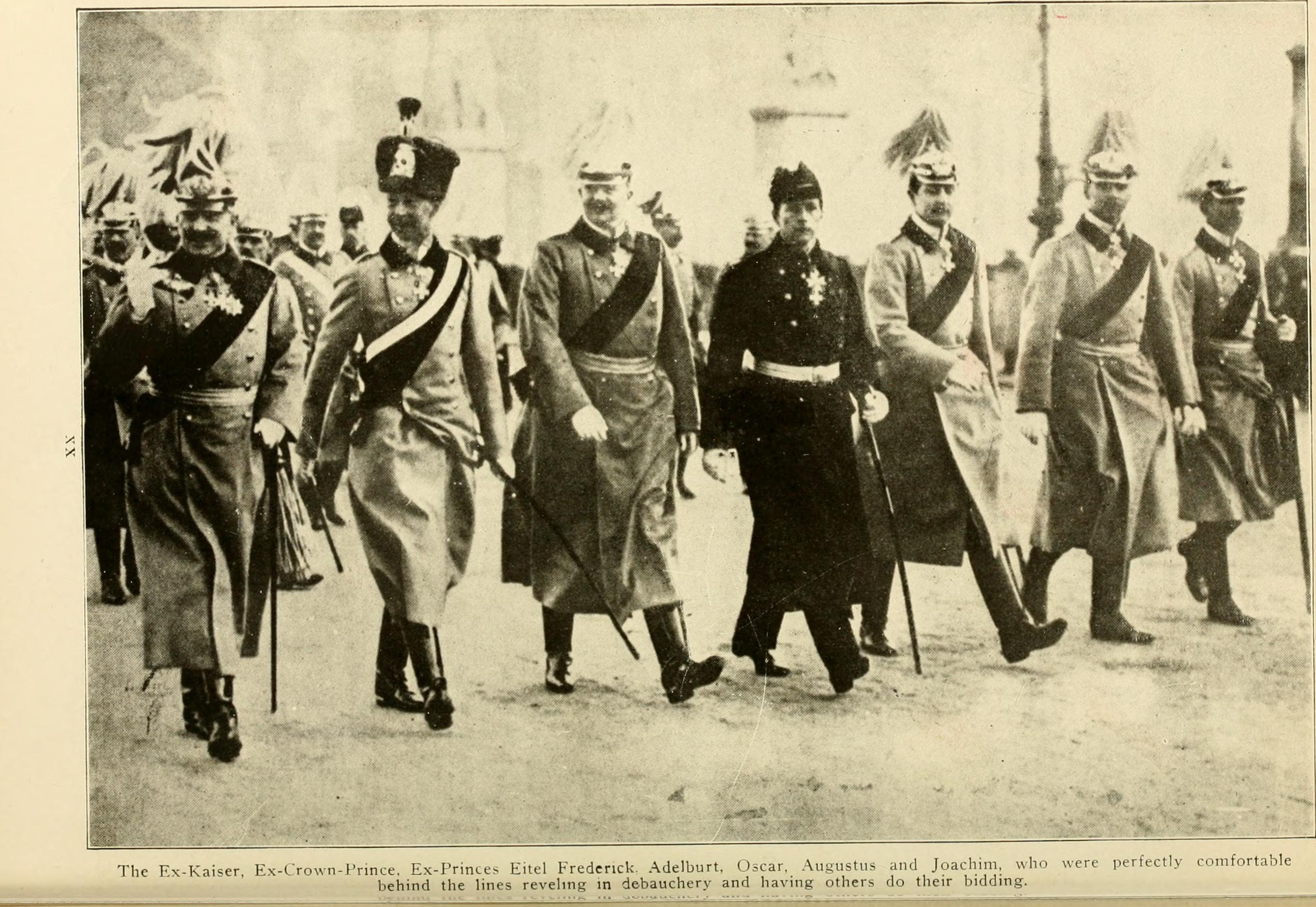 Title: The people's war book; history, cyclopaedia and chronology of the great world war Year: 1919 (1910s) Authors: Miller, J. Martin (James Martin), b. 1859 Canfield, Harry S. (from old catalog), joint author Plewman, William Rothwell, 1880- (from old catalog) Foch, Ferdinand, 1851-1929 Lloyd George, David, 1863-1945 United States. President (1913-1921 : Wilson) Subjects: World War, 1914-1918 World War, 1914-1918 Publisher: Cleveland, O., The R.C. Barnum co. Detroit, Mich., The F.B. Dickerson co. (etc., etc.) Text Appearing Before Image: Montenegro Japan Costa Rica FLAGS OF THE UNITED STATES AND CANADA AND THEIRTWEXTV-THREE ALLIES. THE PEOPLES WAR B(3UK Text Appearing After Image: History of the War ByH. S. CANFIELD CHAPTER I EUROPE RESTS ON A MINE—FORCES WORK FOR PEACE — GERMANYSEEKS WAR—DIRECT CAUSES LEADING TO THE PRESENT WORLD-WIDECONFLICT — GERMANY AND AUSTRIA PLOT — THE DREAM OF A MITTELEUROPA AND A BERLIN TO BAGDAD LINE —THE SPARK THAT SETOFF THE MINE —AUSTRIAS ULTIMATUM TO SERBIA AND HER BRUTALDEMANDS —DIPLOMACY FAILS TO AVERT WAR — WAR IS DECLARED— VIOLATION OF BELGIAN NEUTRALITY FORCES BRITAIN INTO CON-FLICT—THE WAR SPREADS — GERMANYS RESPONSIBILITY FOR THEWAR —GERMANY SELF-D CEIVED — C O M P A R A T I V E MILITARYSTRENGTH OF THE COMBATANTS — MOBILIZATION AND PREPARATION—THE STYLE OF WARFARE REVEALS GERMANYS PREPARATIONS OFFORTY YEARS. For forty years the nations of Eiuopo,from the Bospliorus to the Baltic, movedfitfully over a great war mine. Lesserdisturbances, minor in their comparisonto the world conflict now raging, oftenthreatened to embroil the powers in con-flict. The peppery nations in the Balkanskept southeast